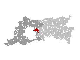 Map of Zaventem municipality in the province Flemish Brabant, Belgium